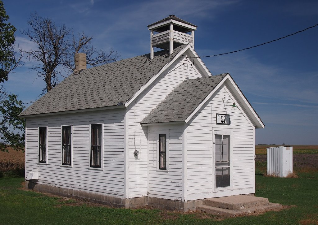 District No. 44 School, Taylor Township, Minnesota, USA. Viewed from the southwest atop a stepladder.